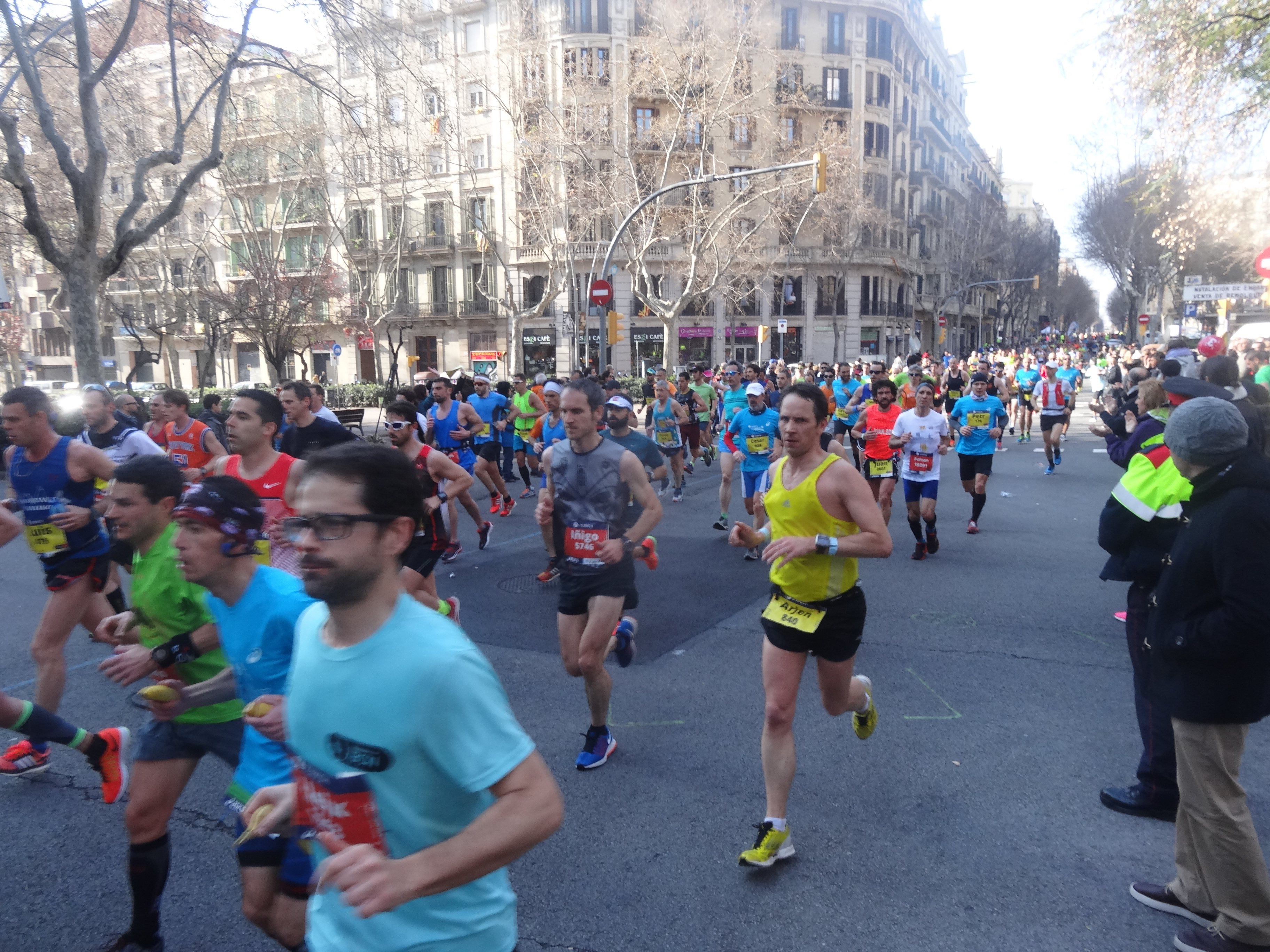 Barcelona Marathon 2016